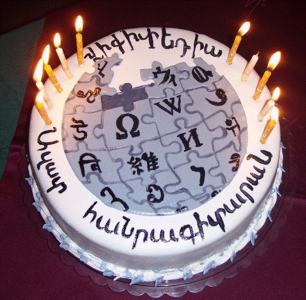 Wikipedia 10th birthday cake from the celebration in Yerevan, Armenia.